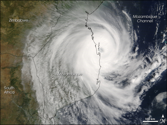 Tropical Cyclone Favio came ashore on the coast of Mozambique in the morning of February 22, 2007. At the time it crossed the shoreline, Favio had lost some strength from its peak the previous day, but still had extremely powerful winds that measured around 203 kilometers per hour (126 miles per hour), according to the Tropical Storm and Reuters AlertNet. The cyclone, the strongest recorded storm to hit Mozambique, was heading directly towards the Zambezi River valley region. This region suffered heavy rains associated with the onset of the monsoon, and severe flooding along the Zambezi River in mid-February killed dozens of people and forced more than a hundred thousand people to evacuate, according to reports from the International Federation of Red Cross and Red Crescent Societies posted online by ReliefWeb. This photo-like image was acquired by the Moderate Resolution Imaging Spectroradiometer (MODIS) on the Terra satellite on February 22, 2007, at 10:20 a.m. local time (8:20 UTC), just as the storm was coming ashore. The eye of the storm was just off the coast as MODIS observed the cyclone. Favio had the recognizable shape of a mature, southern hemisphere tropical cyclone, with spiral arms showing its clockwise rotation, and a well-defined eye with strong eyewall (inner ring) clouds. The high-resolution image at Image:Cyclone Favio 22 February 2007 0820Z.jpg is at MODIS’ full spatial resolution (level of detail) of 250 meters per pixel. The MODIS Rapid Response System provides this image at additional resolutions.